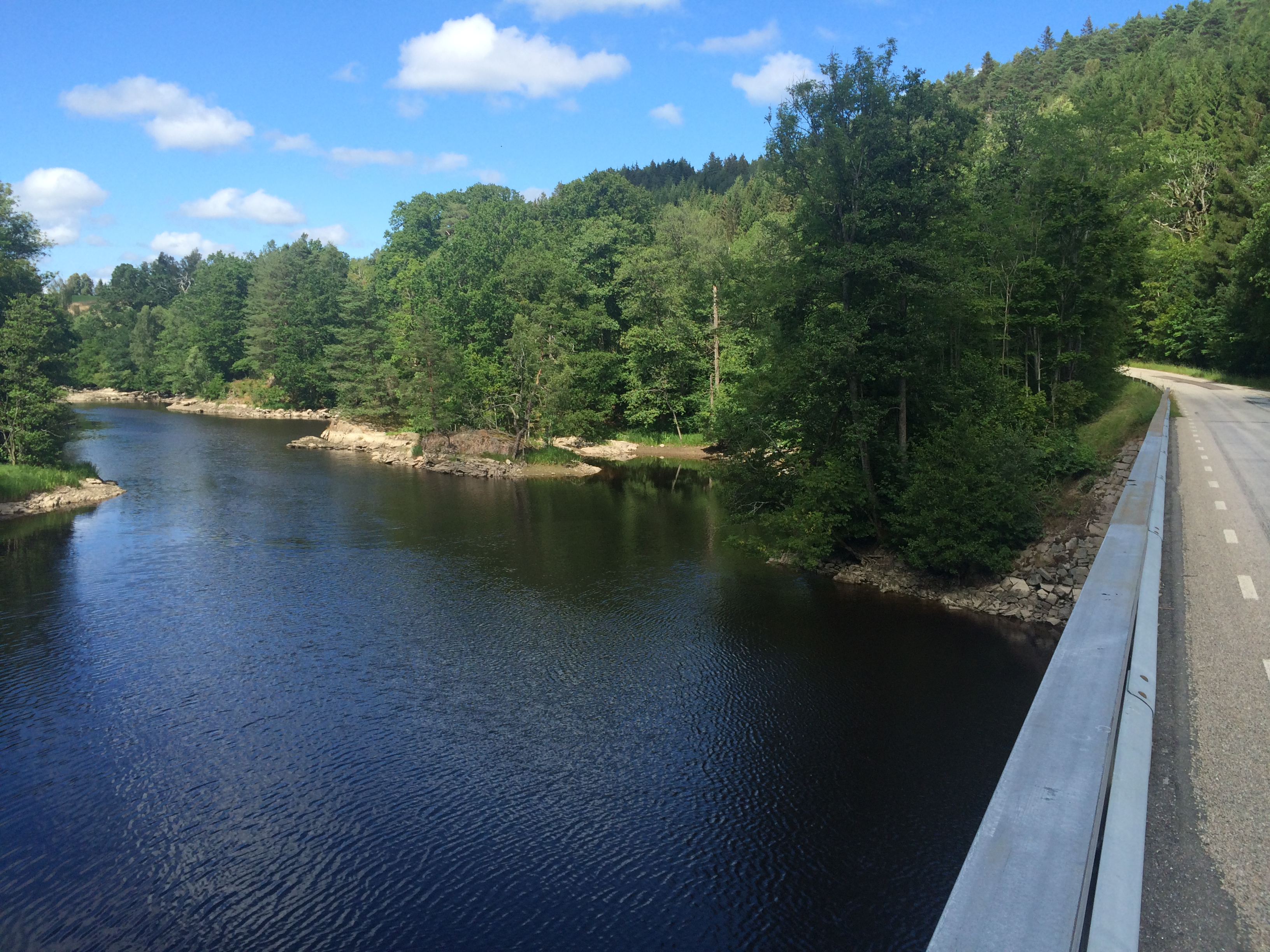 Kärnsjön (Kärn Lake) is a regulated reservoir in the river Örekilselven (Örekil River), in Munkedal municipality, western Sweden.